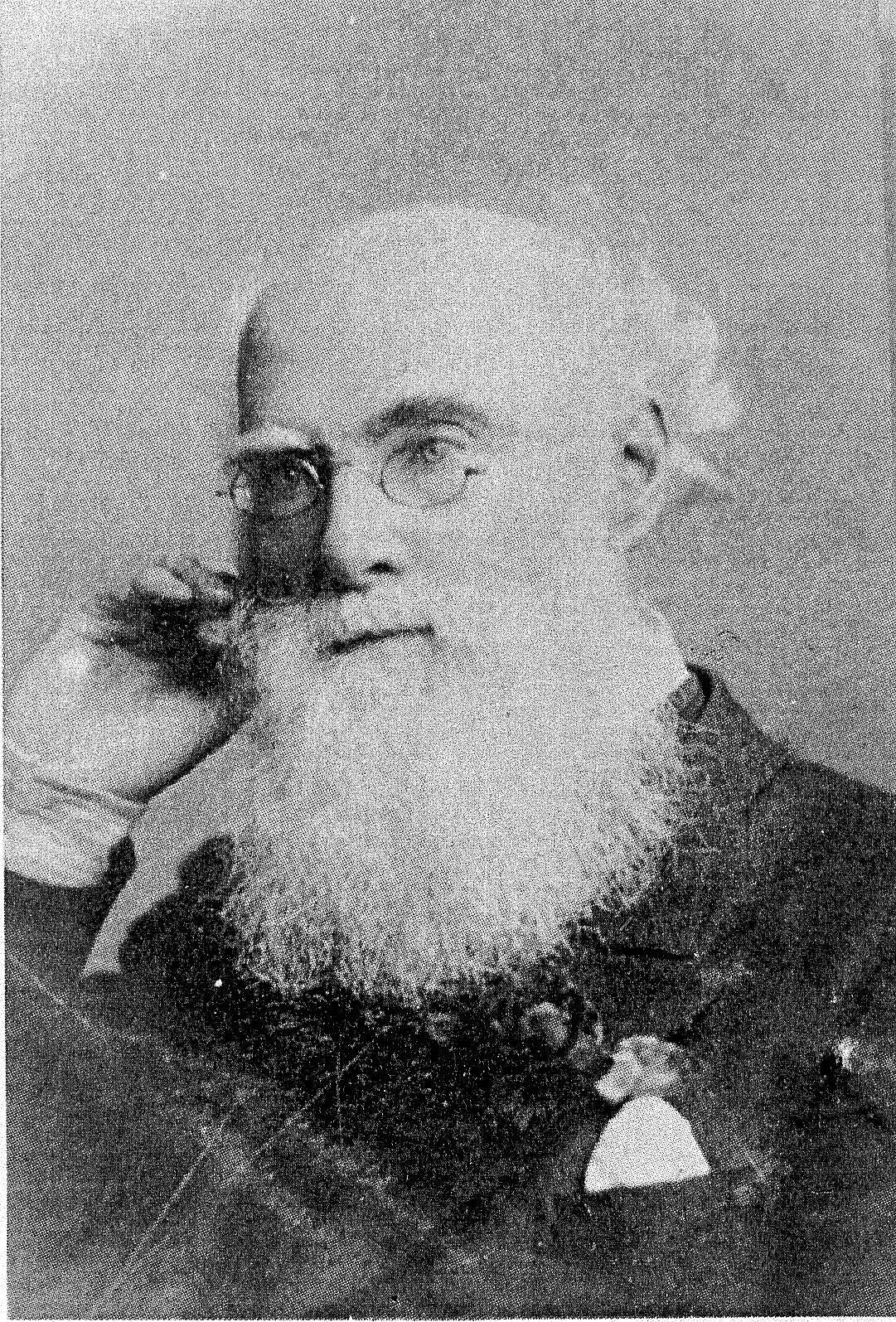 Latham of BradwallDoctor Charles Latham (1816–1907) from Sandbach. Photographer unknown, deceased more than 100 years ago. Source: Paul Latham, descendant.